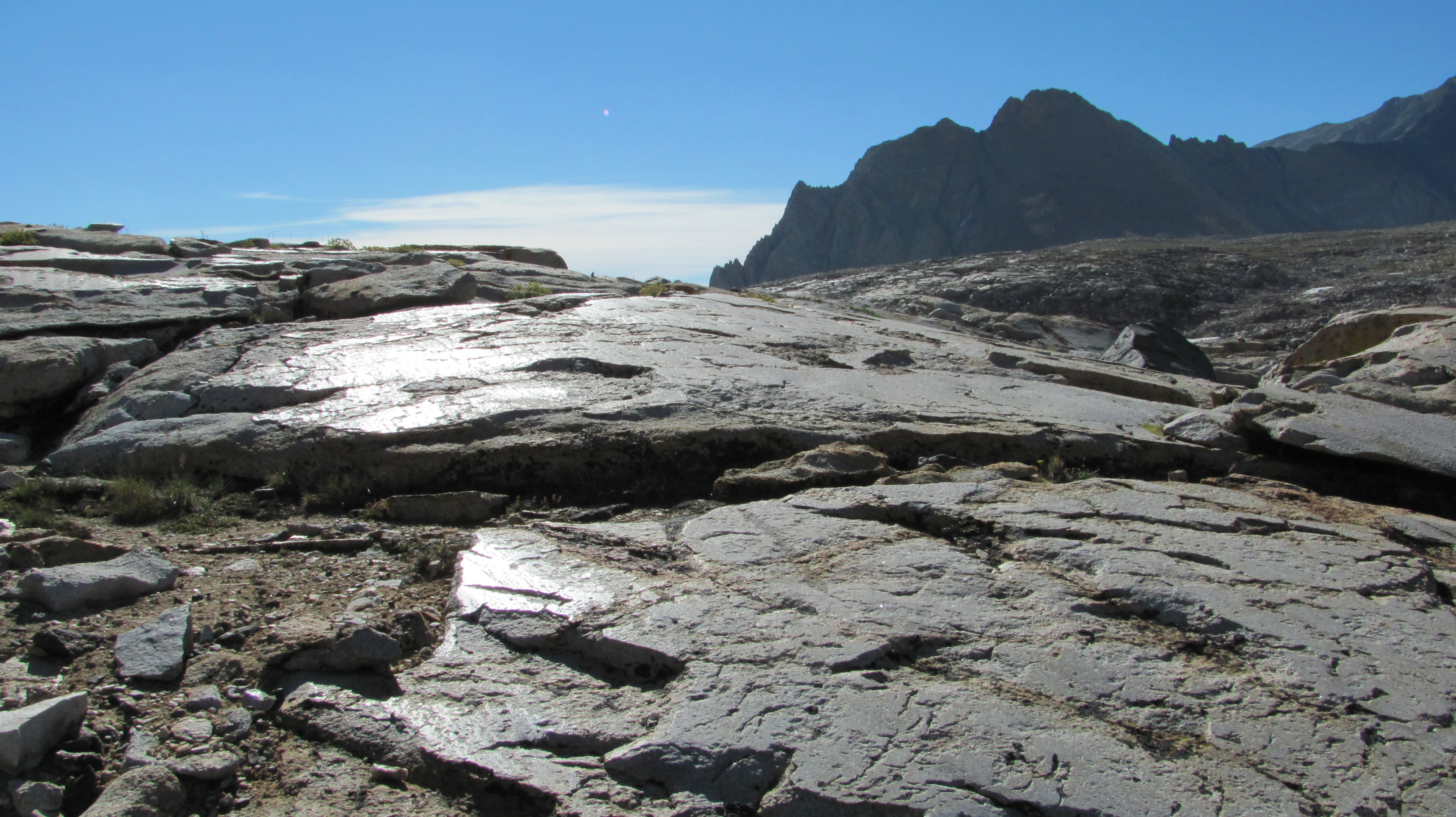 Evidence of west to east glacial flow in distant pass.